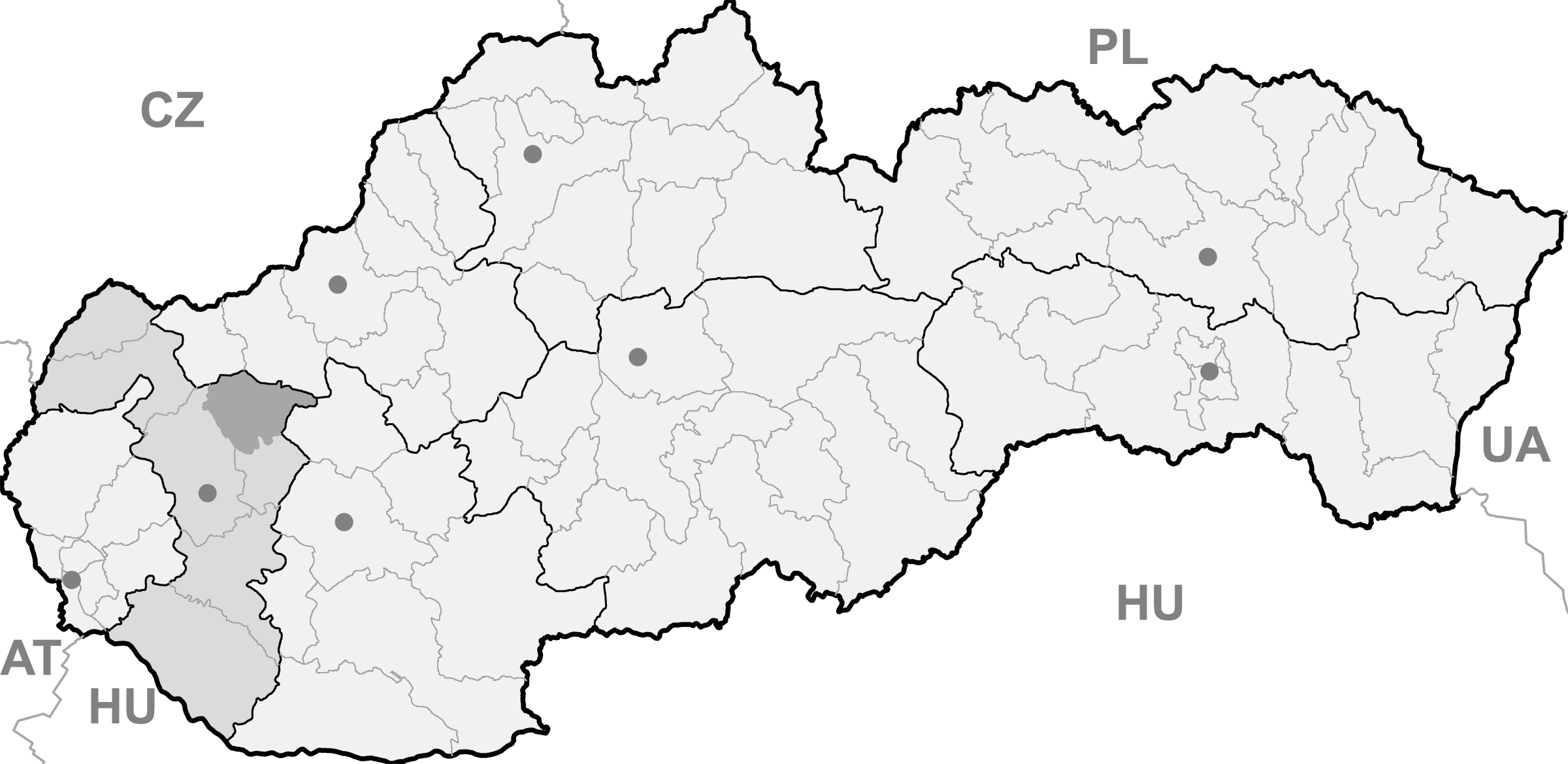 Map of Slovakia, Piestany district and Trnava region highlighted